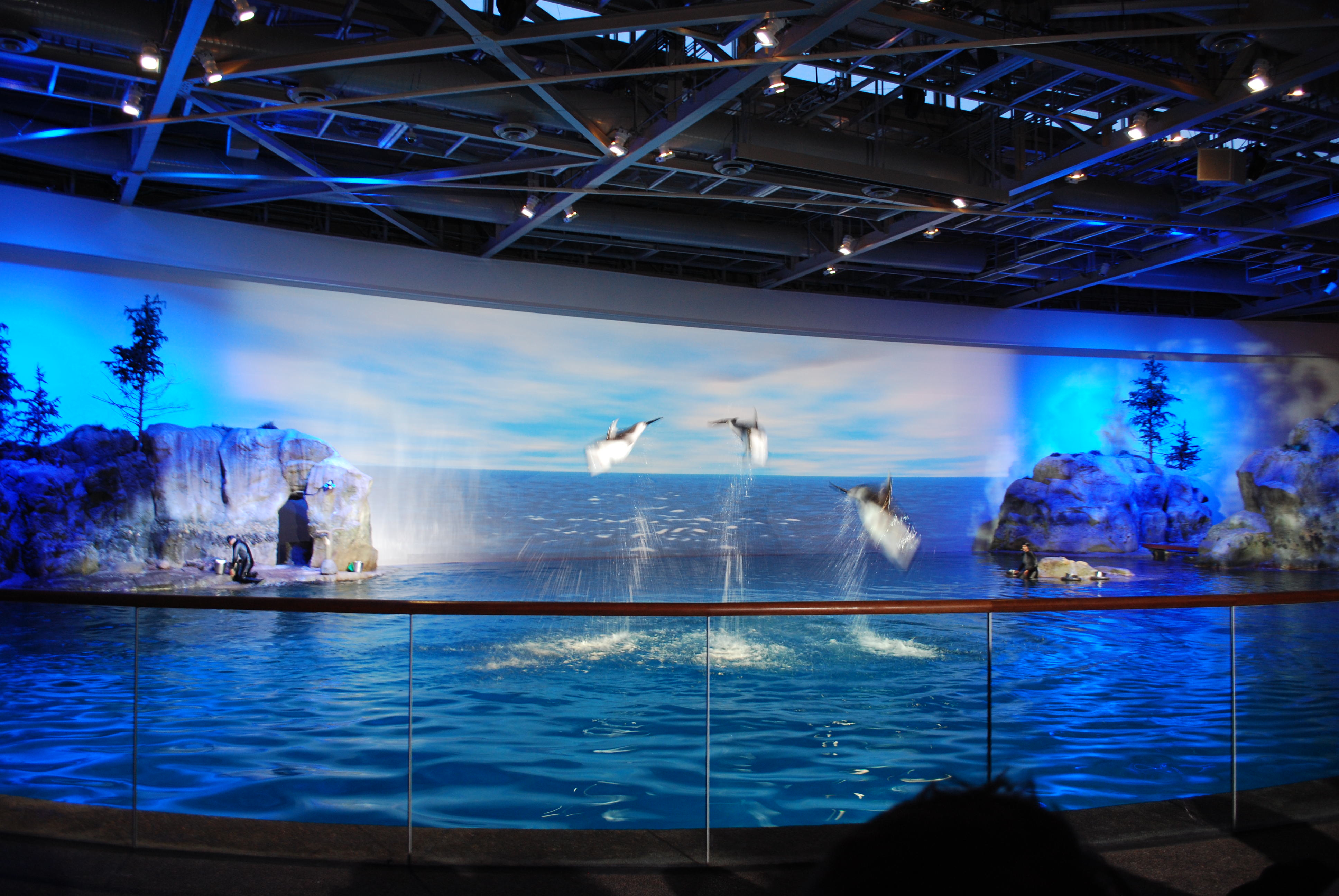 Dolphin Show at Shedd Aquarium Chicago, IL